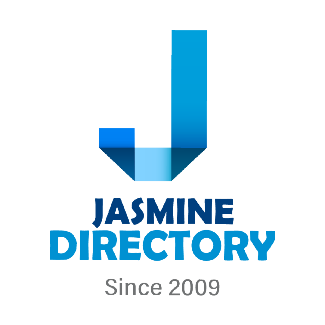 Logo of Jasmine Directory, I created the logo.